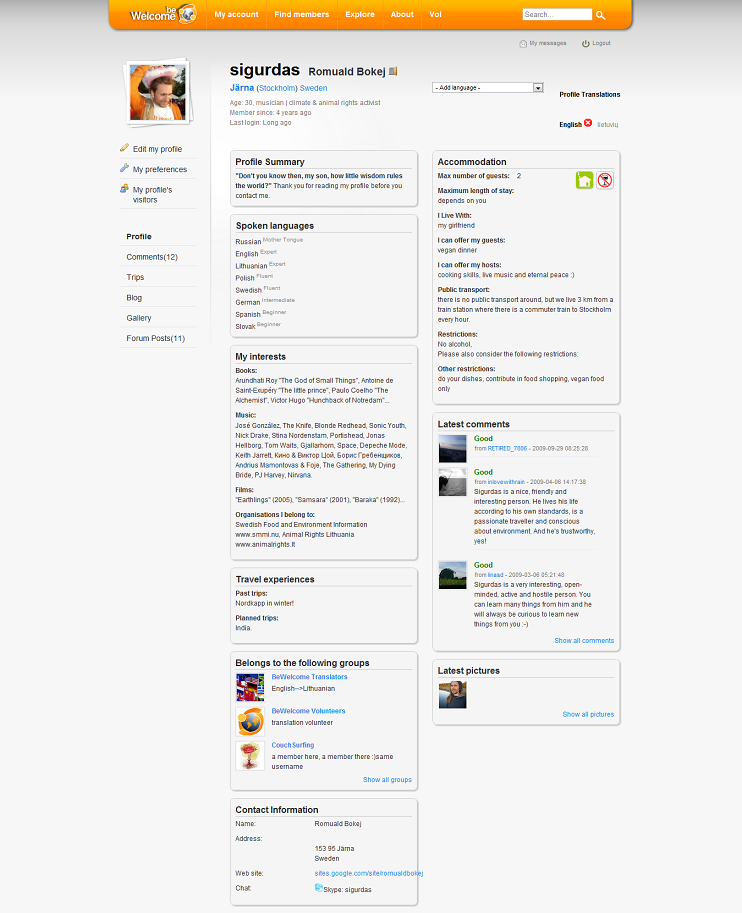 A member's profile page on